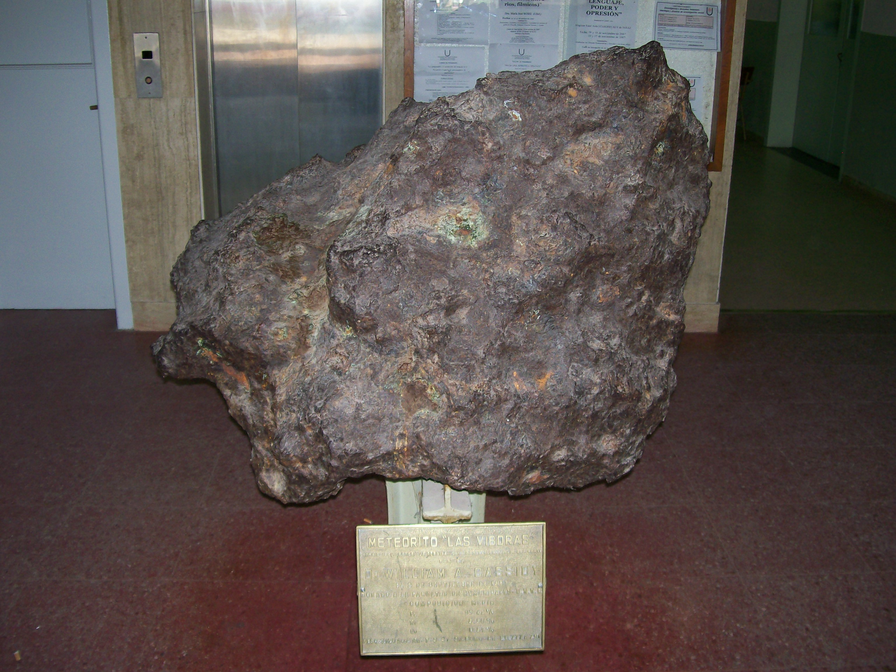 "Las Víboras" meteorite found in Campo del Cielo, Chaco province, Argentina. It was donated by William S. Cassidy, who commanded investigation in this area. This picture is taken on the hall of Facultad de Humanidades, Universidad Nacional del Nordeste (Resistencia, Chaco), where it is permanently exhibited.